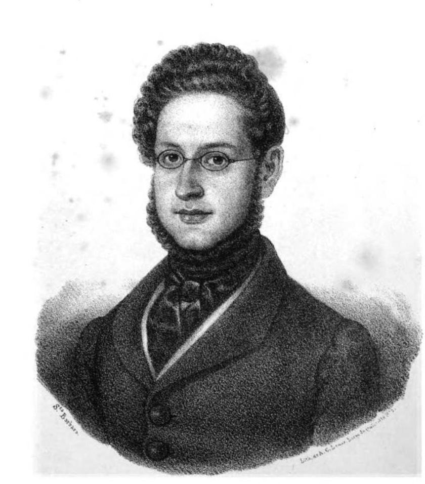 Inácio Pizarro de Morais Sarmento (1807-1870), Portuguese author and politician